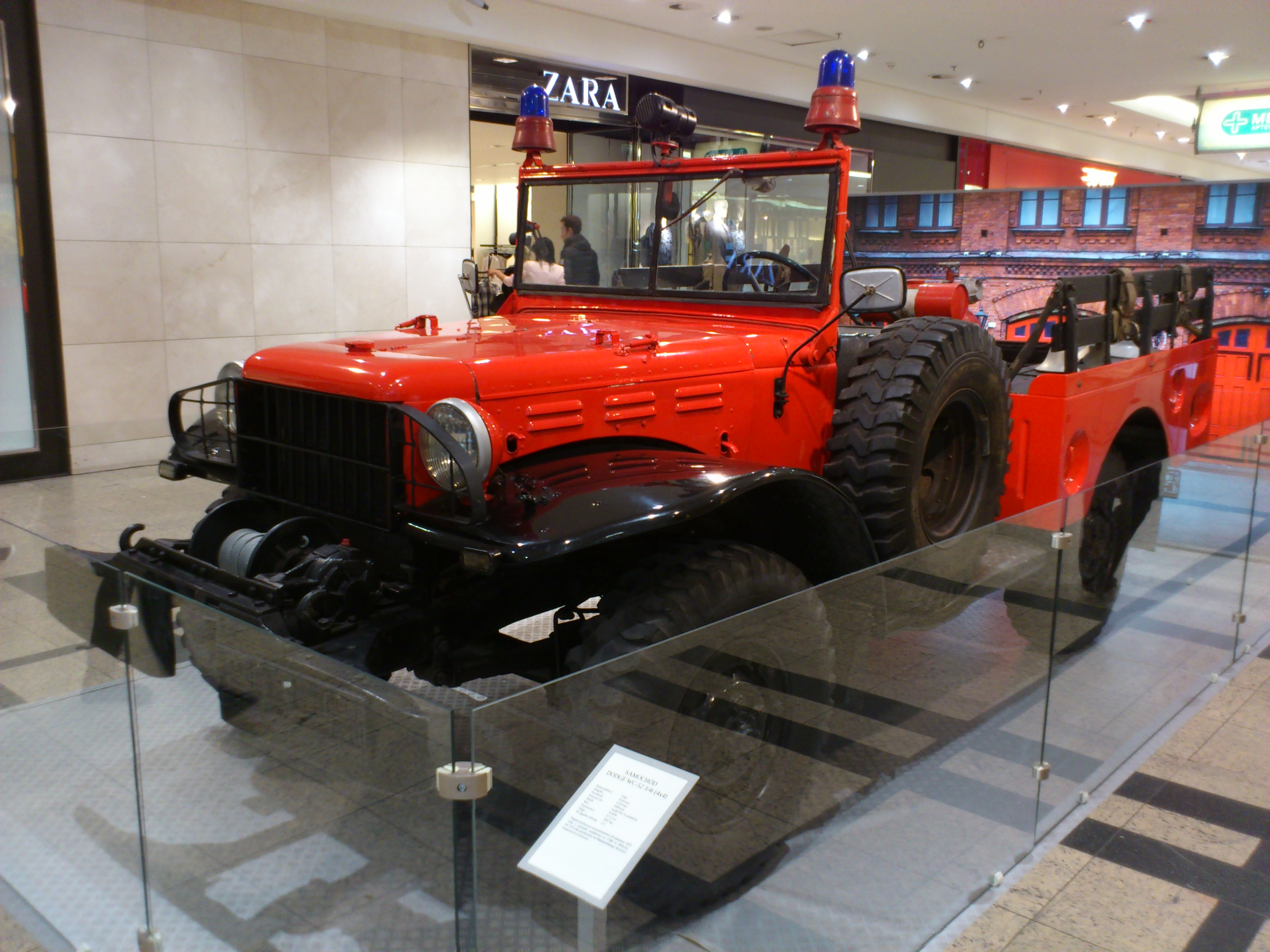 GLM Dodge WC-52 from Muzeum Pożarnictwa w Alwerni during "Straż pożarna wczoraj i dziś" exhibition at Galeria Krakowska in Kraków. Before becoming a fire engine on the 20th of August 1959 this vehicle served in the 1366th military unit in Kłock. In 1970 it was transferred to the Muzeum Pożarnictwa in Alwernia.